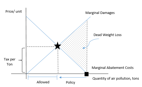 Air Pollution in India Graph